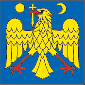 Coat of arms of the Wallachian Principality.